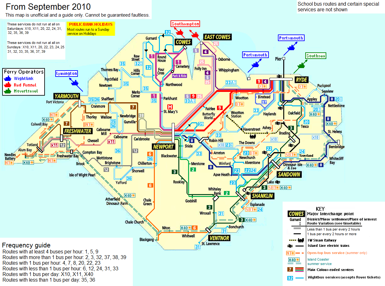 A diagram of public transport for the Isle of Wight, showing the situation in September 2010.